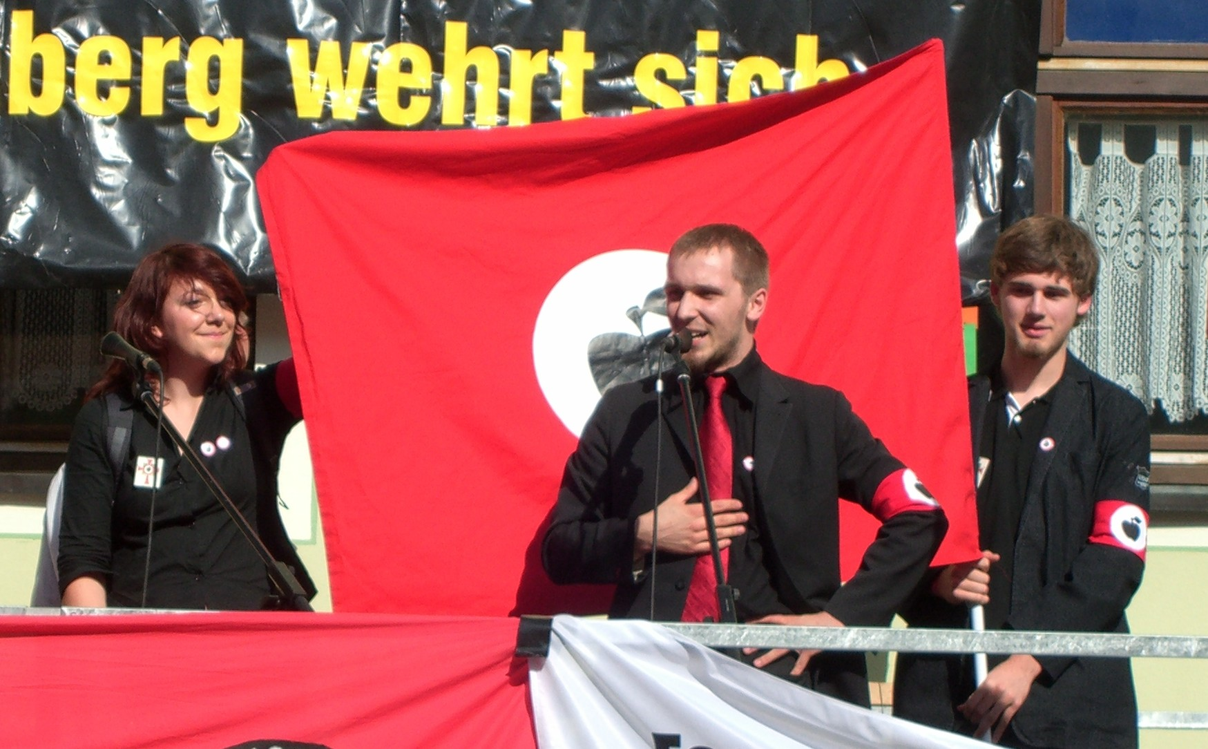 Humorous address of the parody organisation Front Deutscher Äpfel at the anti nazi demonstration "Gräfenberg ist bunt" (Gräfenberg is colorful) at the market place of Gräfenberg in Upper Franconia (Bavaria, Germany) on 18. August 2007.